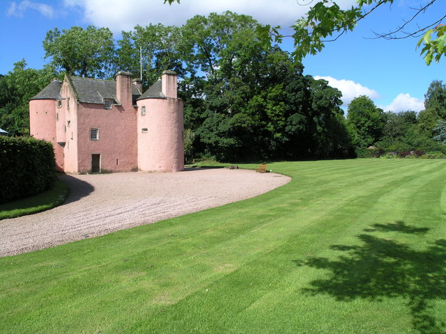 Terpersie Castle Terpersie is a very attractive small Z-plan castle, hidden away behind a farm in a side glen on the south side of the Correen Hills. It was restored from an almost complete ruin within the last 20 years or so. The last Gordon of Terpersie was "out" during the rebellion of 1745, and he hid in the Correen Hills above his house after the defeat at Culloden until eventually he was caught by the searching government troops. They did not at first realise who they had caught, thinking him just a vagrant, until he was brought down to Terpersie where his children on seeing him ran towards him with cries of "Daddy Daddy"!! He was taken to Carlisle and hung!